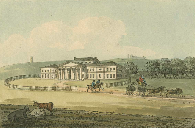 "Lord Holland's House, Kingsgate; London, publish'd April 30th 1797, by Amelia Noel, no. 189 Piccadilly". Holland House, Kingsgate, in Kent, is a Georgian country house built between 1762 and 1768 as his retirement home by the politician Henry Fox, 1st Baron Holland (1705-1774), of Holland House in Kensington.